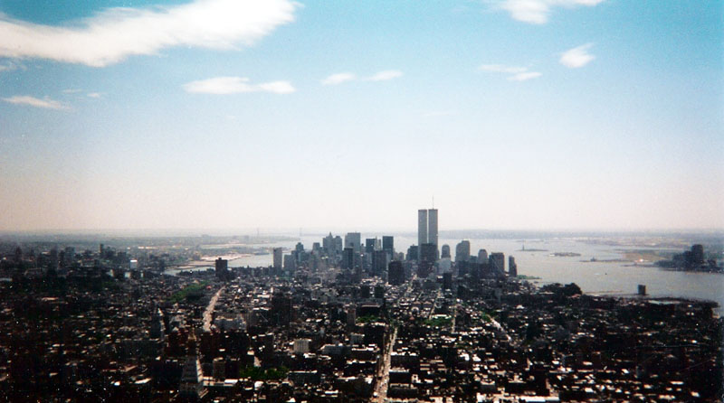 The World Trade Center towering over the Lower Manhattan skyline. From the Empire State Building, May 2001.